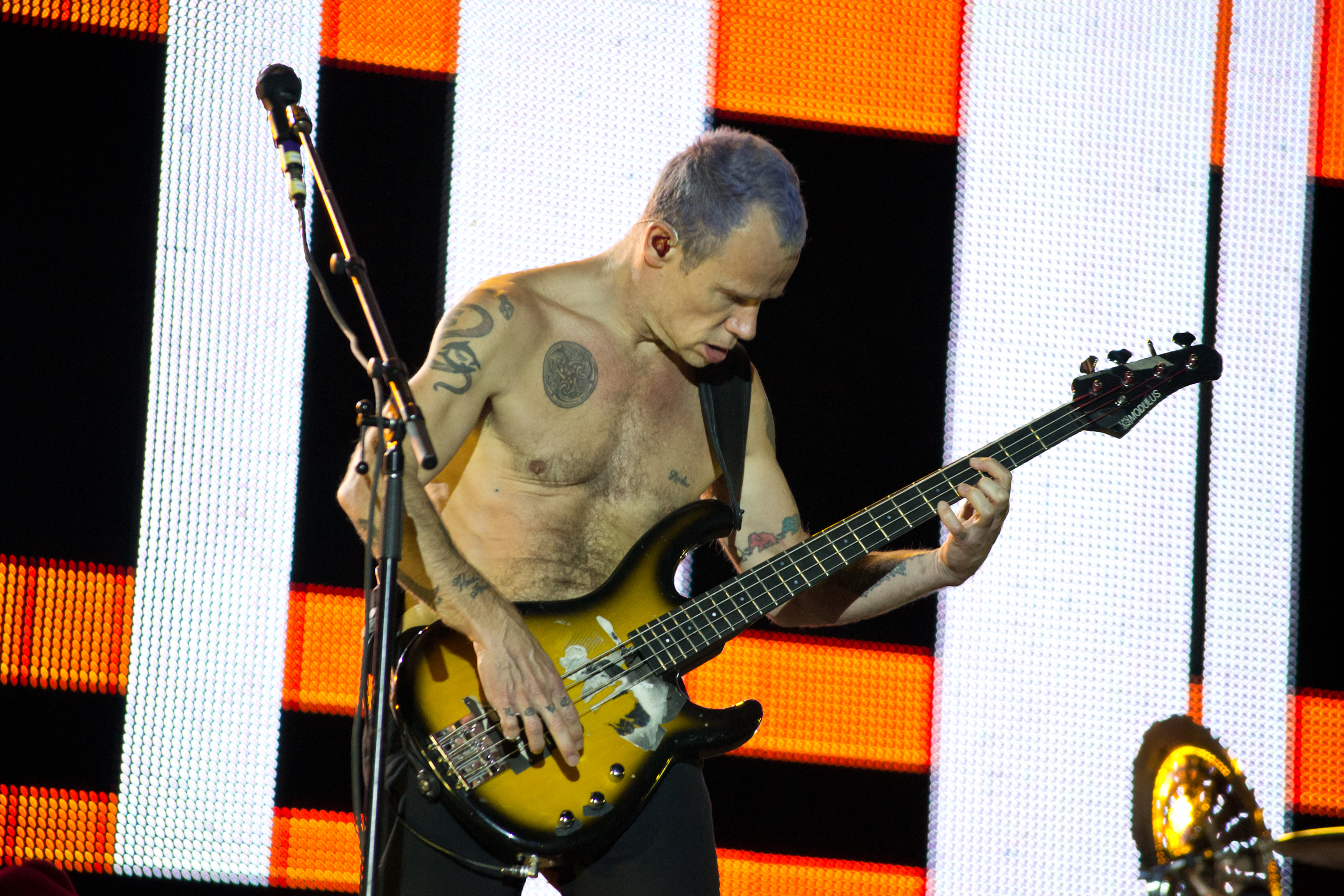 Michael Peter Balzary (Flea), Red Hot Chili Peppers in Rock in Rio Madrid 2012.